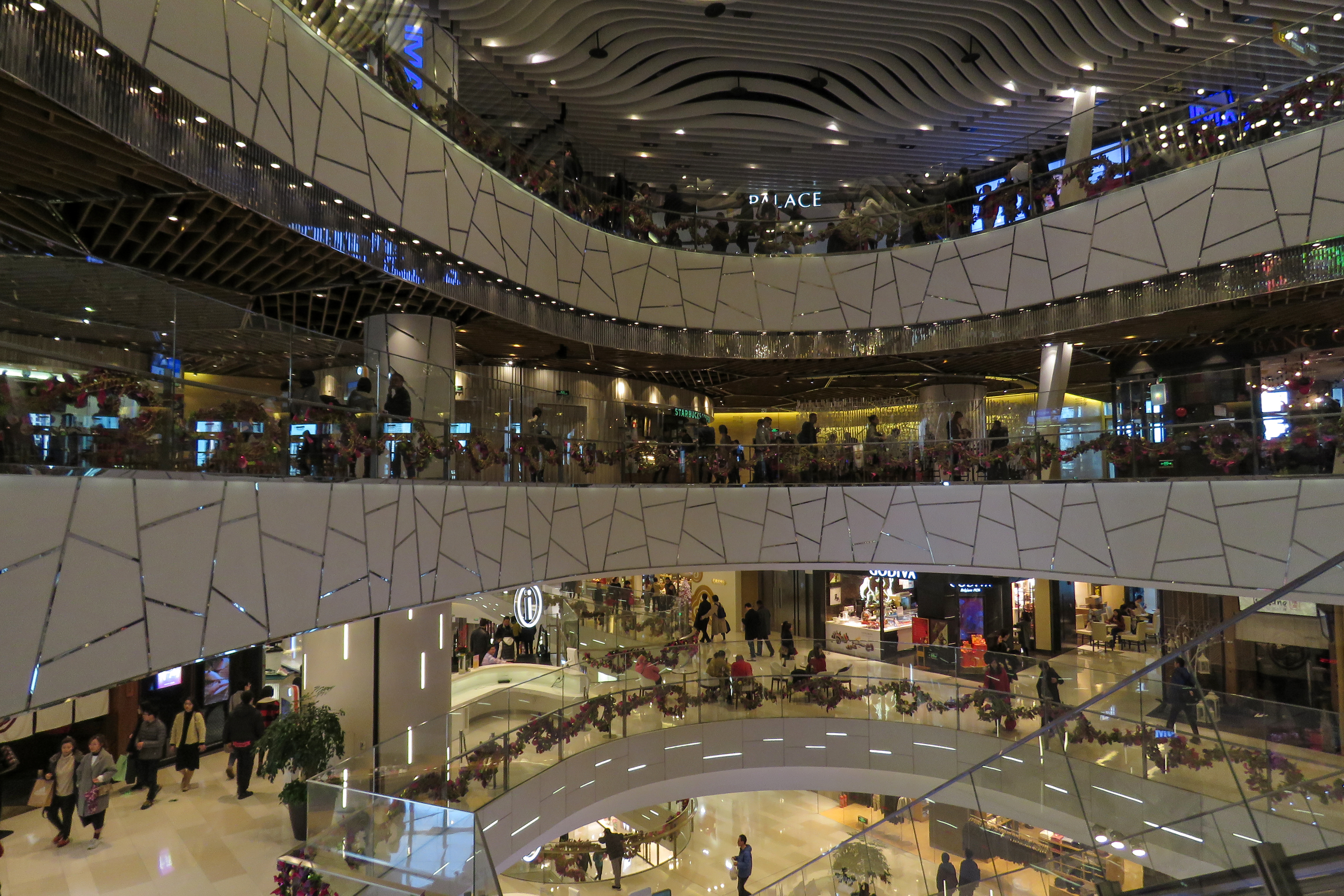 Time to discover the delicacies here.